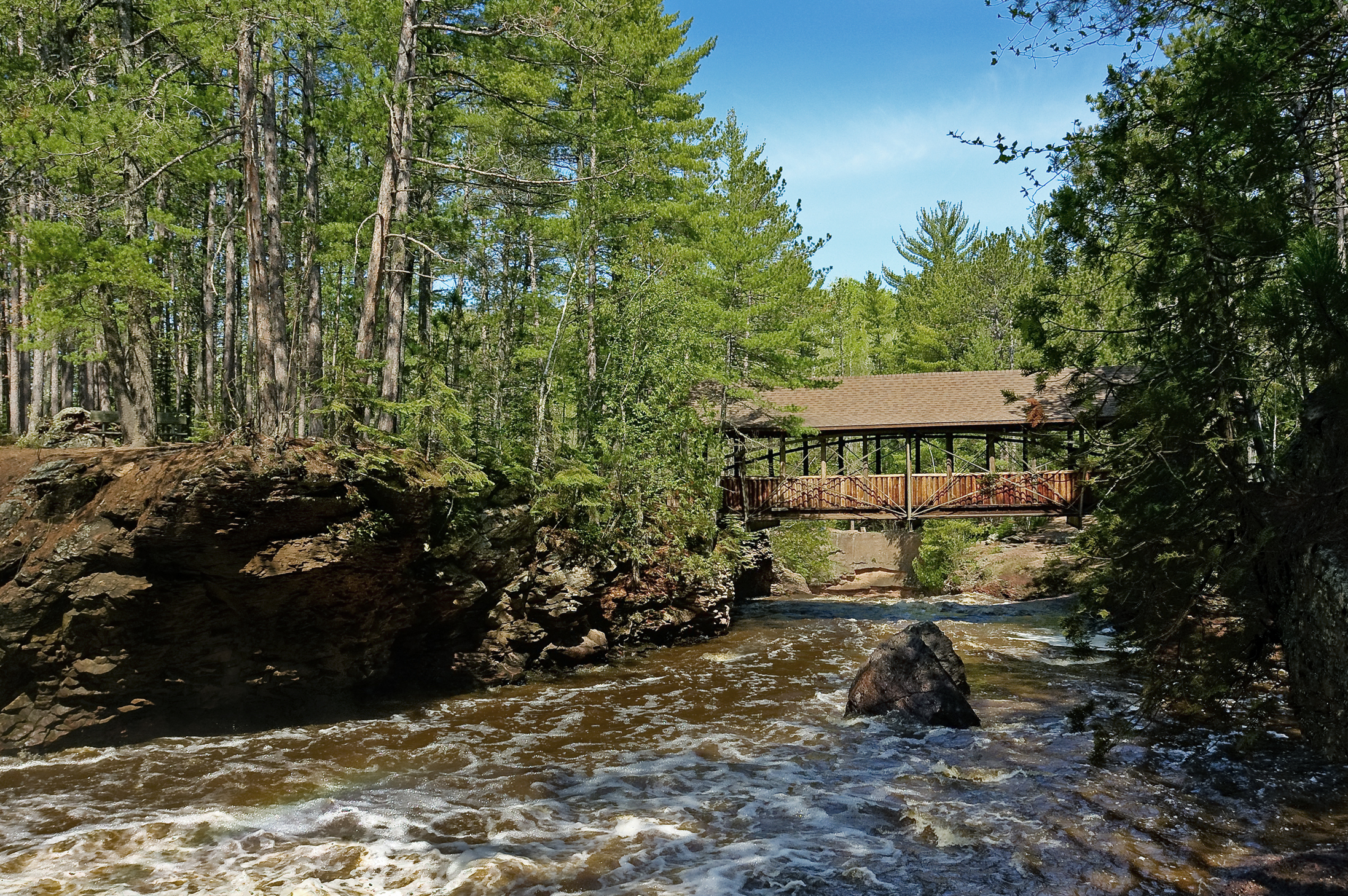 Covered bridge and Pinus resinosa forest at Amnicon Falls State Park, Wisconsin, USA